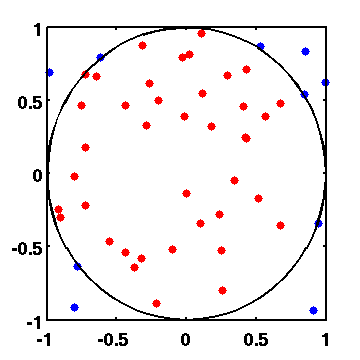 An illustration of Monte-Carlo Integration.